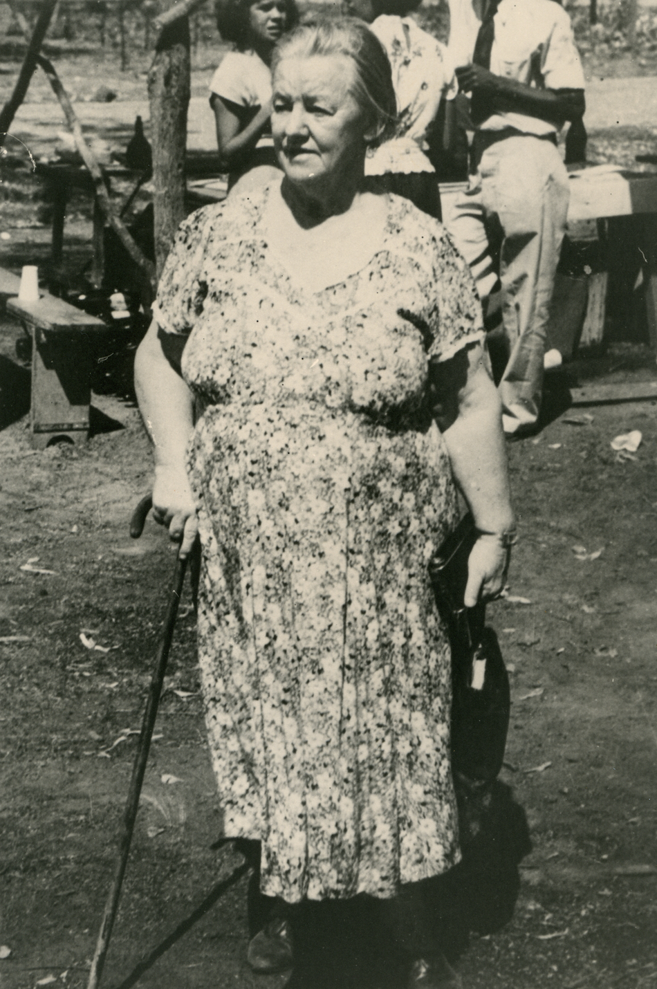 Jessie Litchfield at Darwin Show - PH0110/0091